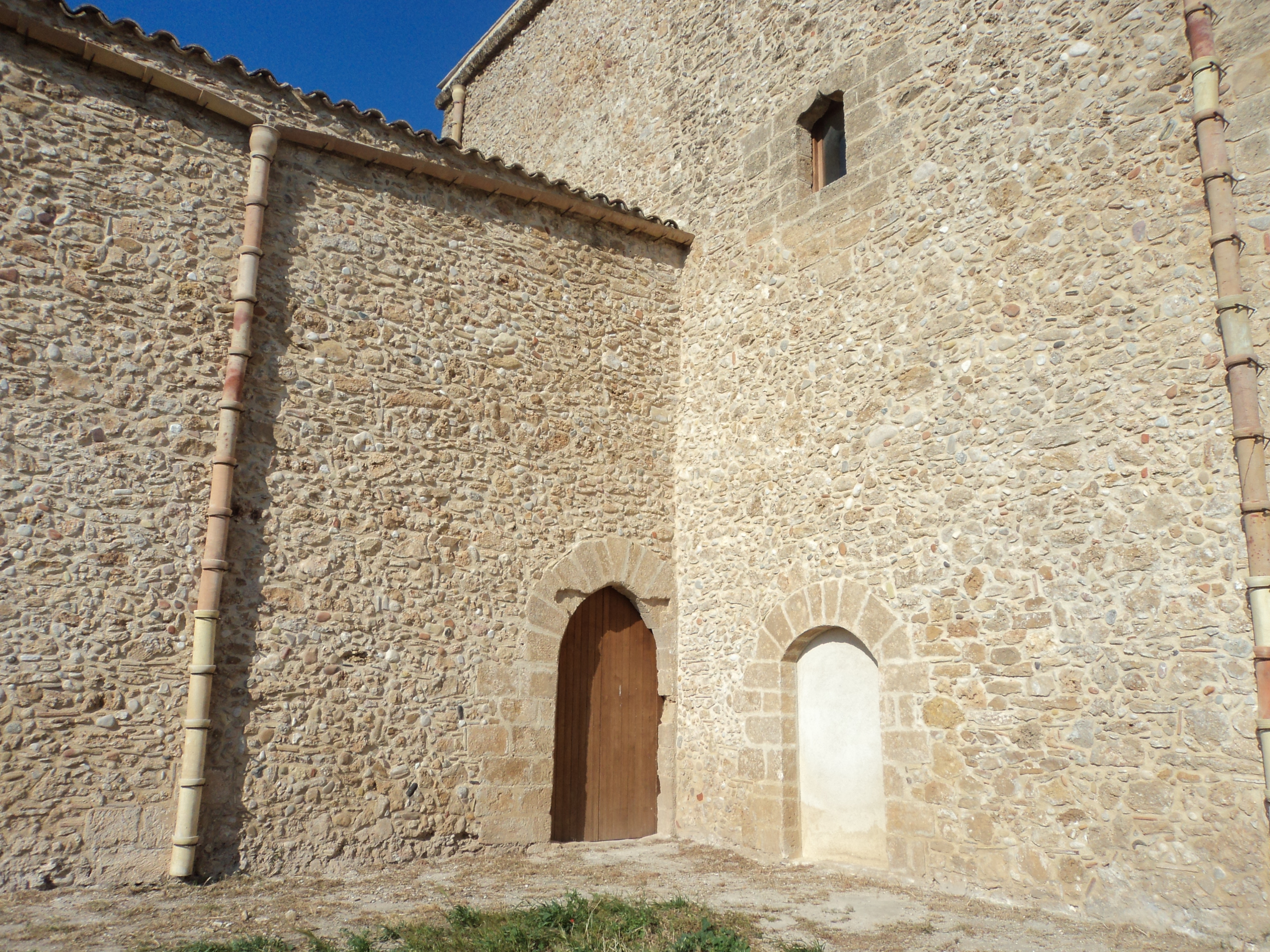 Church of Santa Maria della Raccomandata (Sciacca)